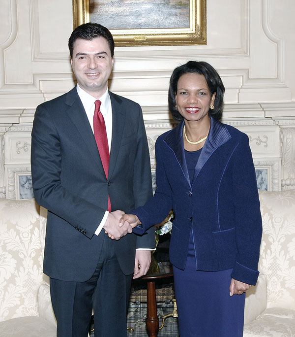 Condoleezza Rice and Albanian foreign minister Lulzim Basha.